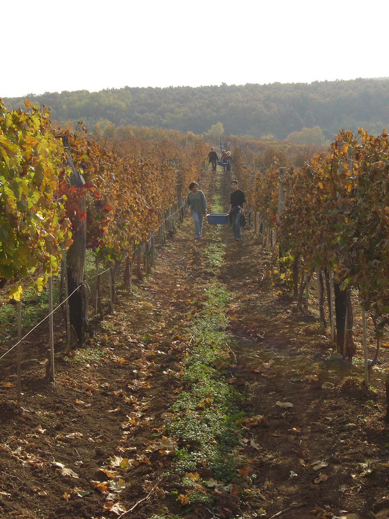 Eger, Hungary The wineyard where they produce Egri Bikaver, amongst others